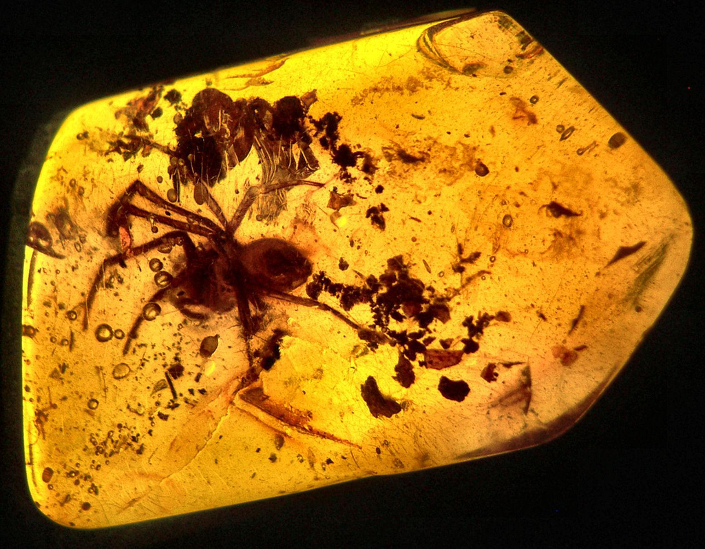 Critters in amber